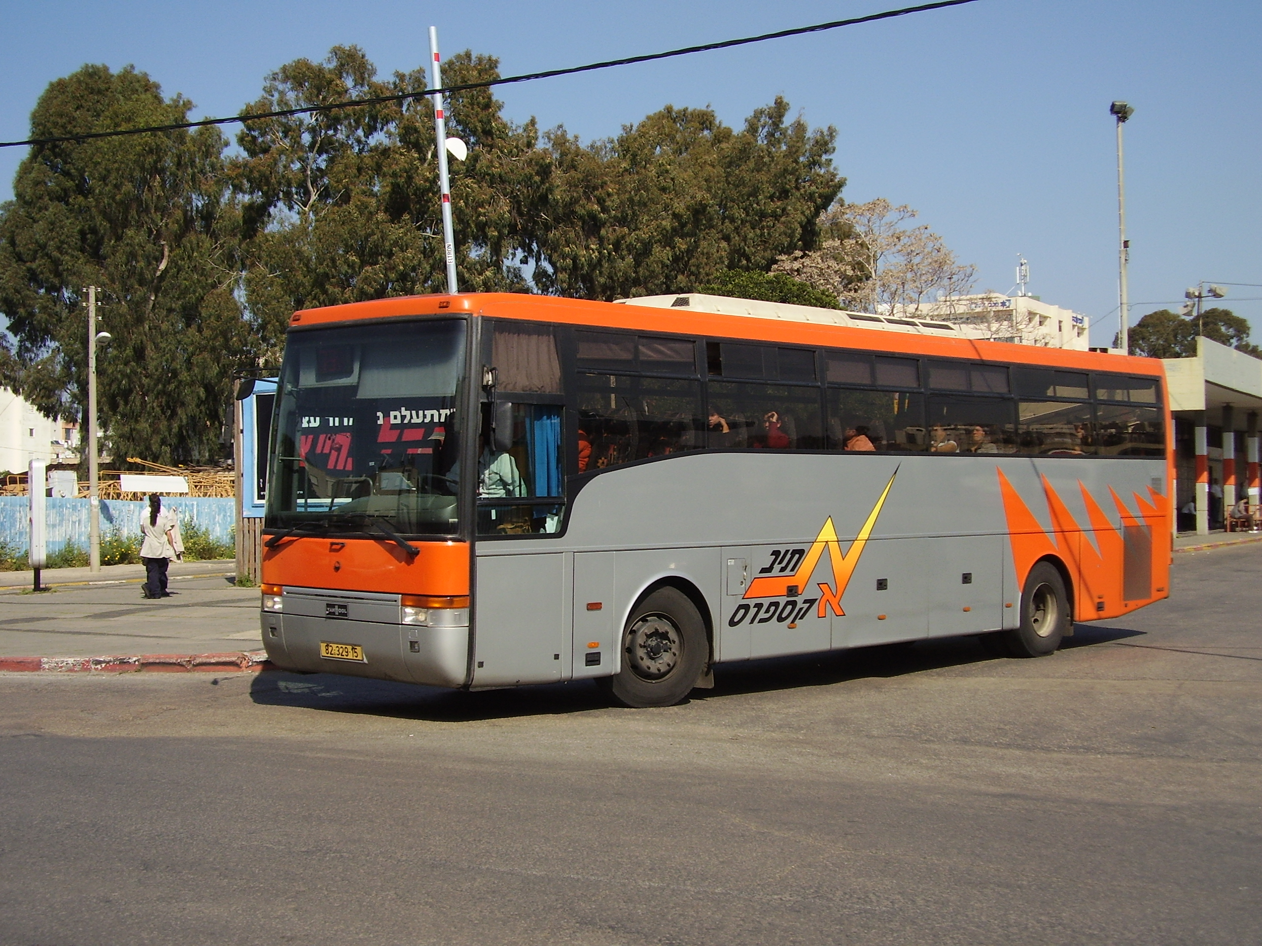 A "Nateev Express" bus exiting the central bus station in Hadera, Israel